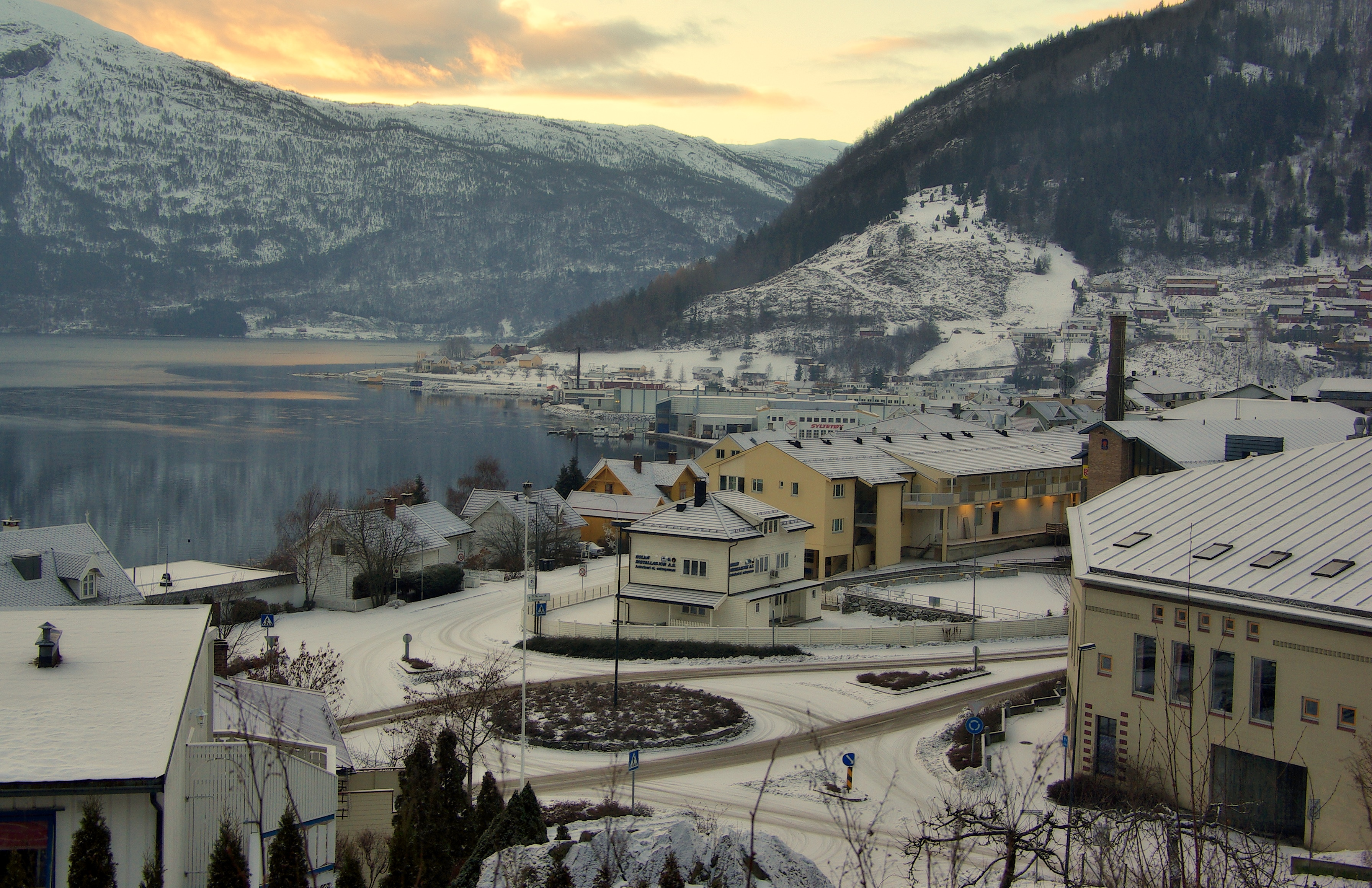 See above